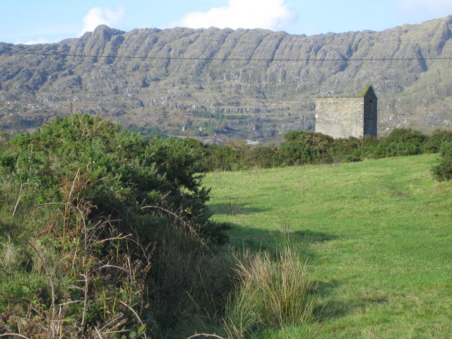 Na hAilichi (Allihies): Former copper mine One of several old buildings around Allihies that were associated with the former copper mining industry, with the Slieve Miskish Mountains in the background.